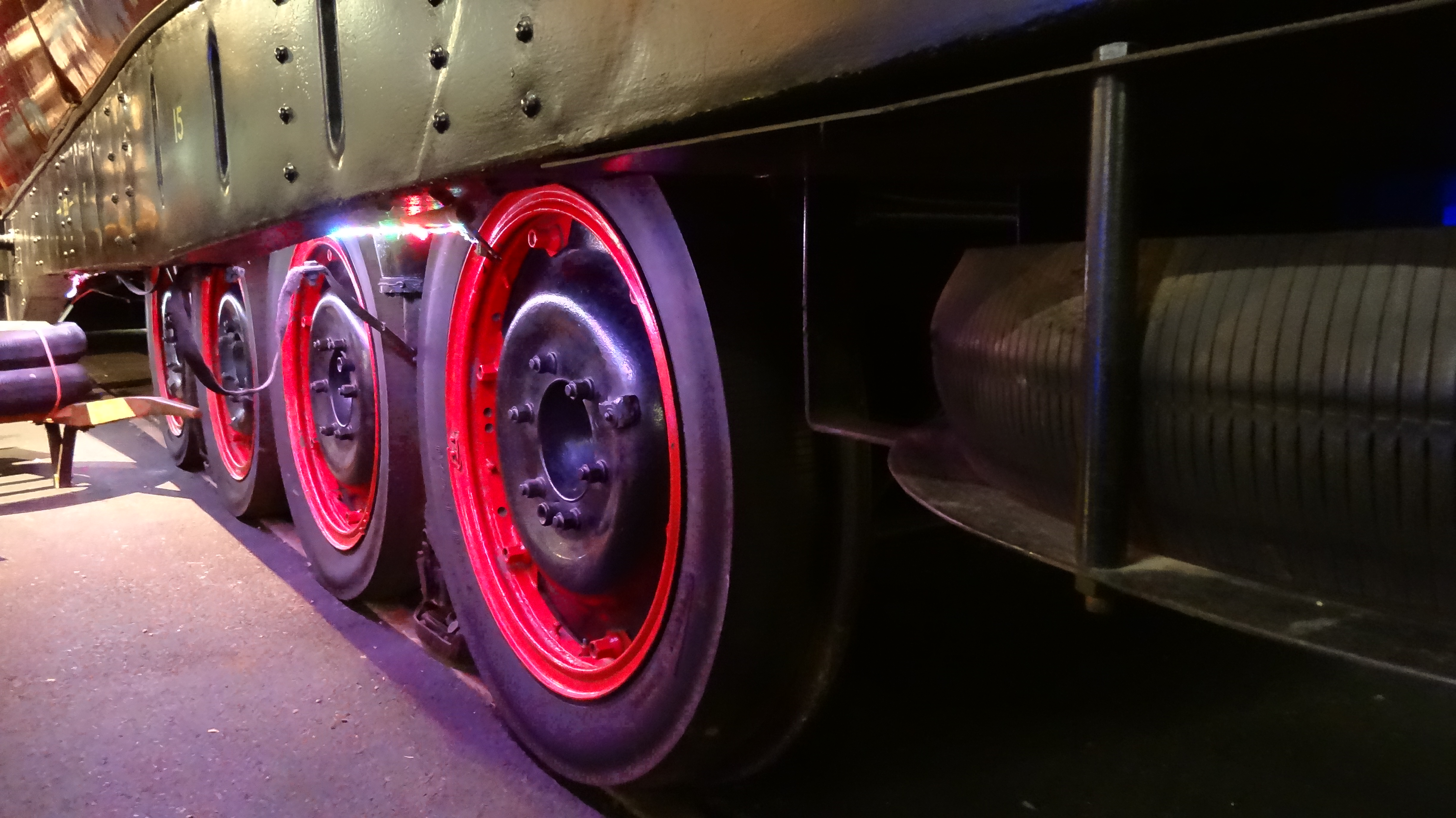 Micheline bogie, Cité du train, Mulhouse, France.